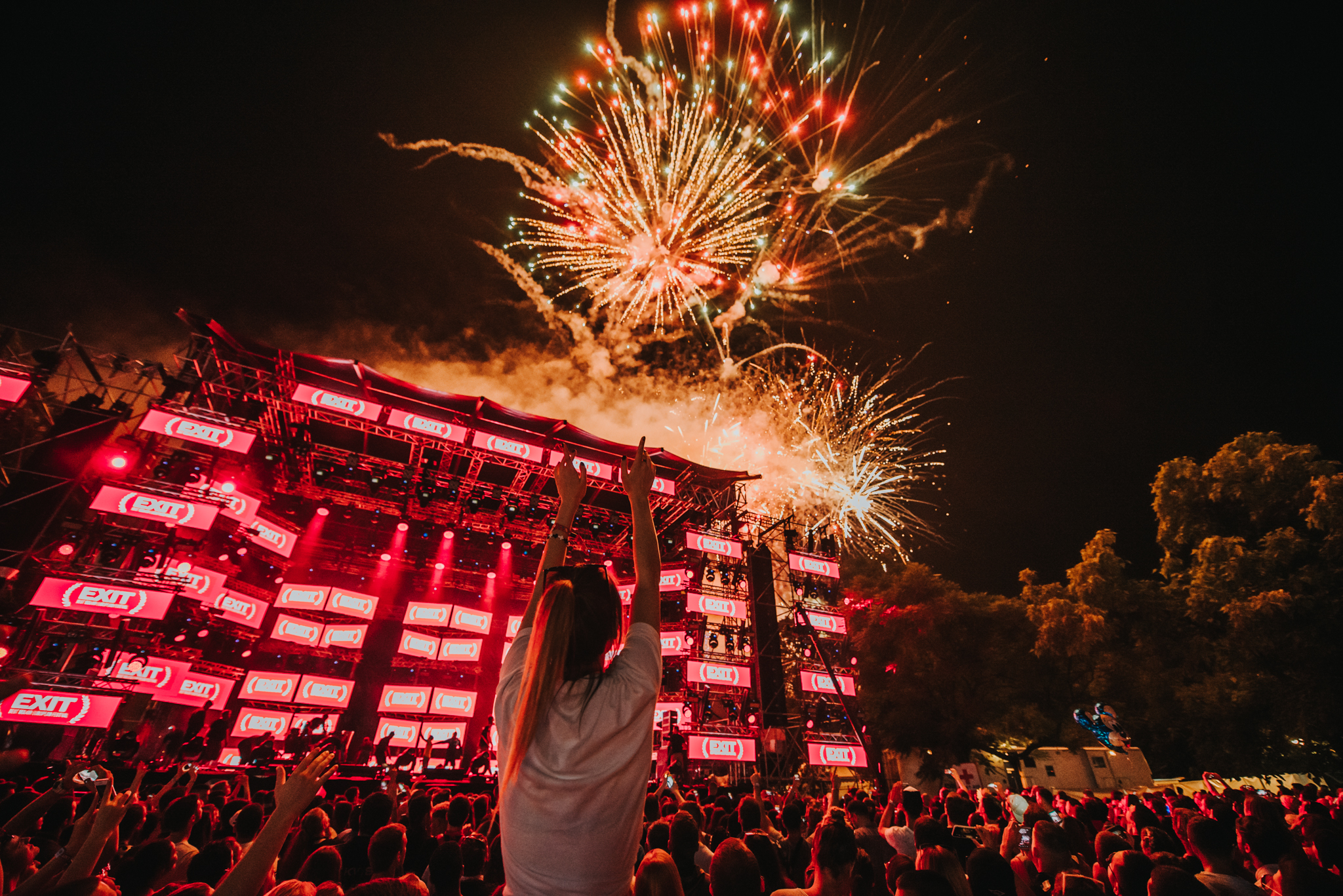 Fireworks at EXIT Festival 2018 Srpski (latinica): Vatromet na festivalu Egzit 2018. godine